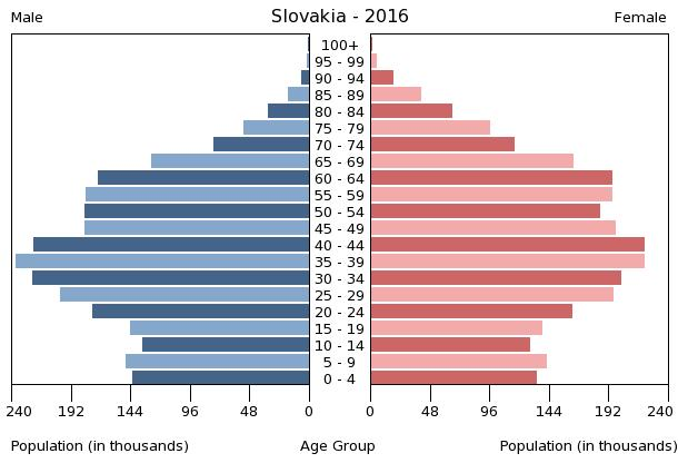 The population pyramid of Slovakia illustrates the age and sex structure of population and may provide insights about political and social stability, as well as economic development. The population is distributed along the horizontal axis, with males shown on the left and females on the right. The male and female populations are broken down into 5-year age groups represented as horizontal bars along the vertical axis, with the youngest age groups at the bottom and the oldest at the top. The shape of the population pyramid gradually evolves over time based on fertility, mortality, and international migration trends.